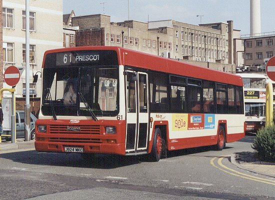 Halton Transport Leyland Lynx bus, pictured leaving the now demolished Paradise Street Bus Station, Liverpool.